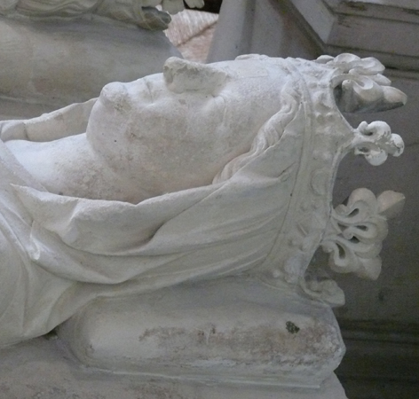 Constance of Arles